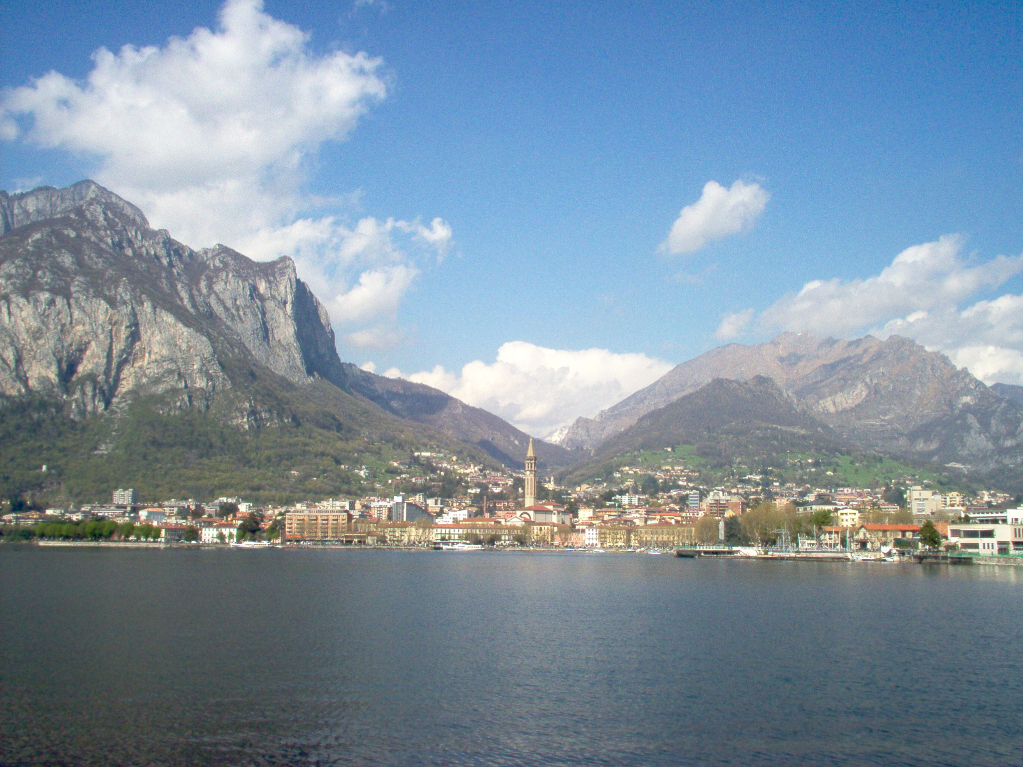 Photo taken by myself (User:GôTô) on April 16th 2006 at Lecco, Italy.